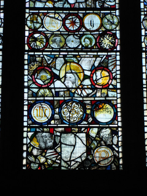 St Mary Redcliffe, Bristol. Medieval Glass This shows part of a window containing medieval glass. Medieval glass was destroyed on a vast scale during the reformation.